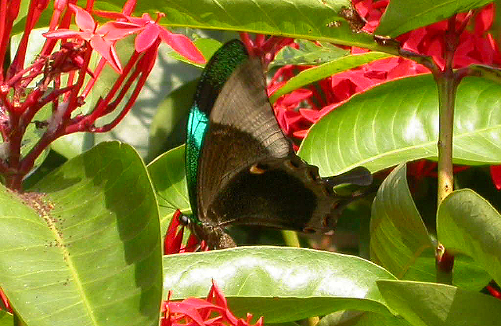 Malabar Banded Peacock Papilio buddha(Westwood, 1872)